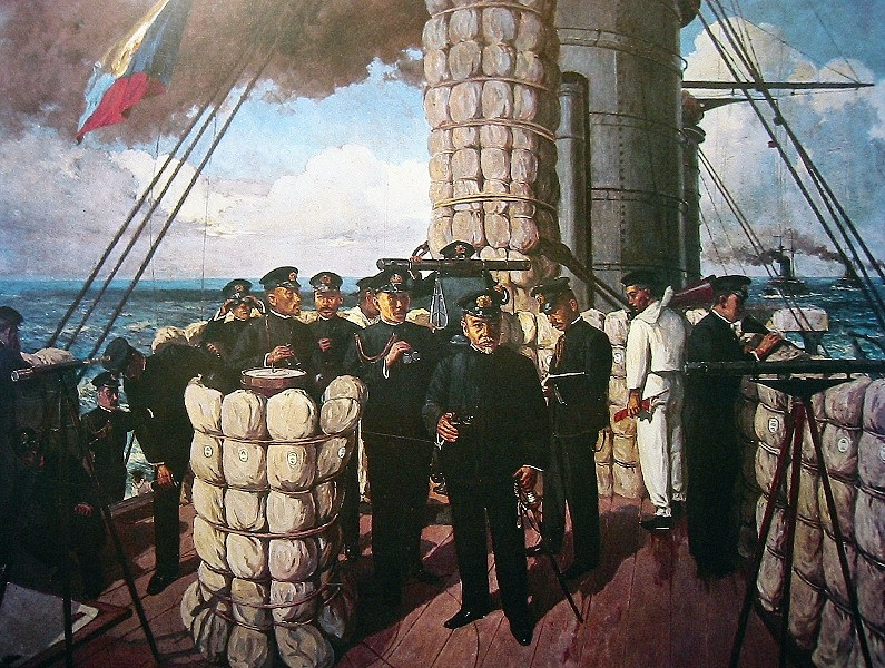 Admiral Tōgō Heihachirō on the bridge of the Battleship Mikasa. Left to right: messenger Yamazaki Genki, navigator Second Lieutenant Edahara Yurikazu, staff Major Iida Hisatsune, chief navigator Lieutenant Colonel Nunome Mitsuzō, aide-de-camp of gunnery officer Lieutenant Imamura Nobujirō, captain of Mikasa Captain Ijichi Hikojirō, gunnery officer Major Abo Kiyokazu, 4th grade sailor Noguchi Shinzō, chief of staff Rear-Admiral Katō Tomosaburō, measurement officer Cadet Lieutenant Hasegawa Kiyoshi, Commander-in-chief of the Combined Fleet Tōgō Heihachirō, staff Lieutenant Colonel Akiyama Saneyuki, 1st grade sailor Miura Tadashi, cadet Tamaki Shinsuke